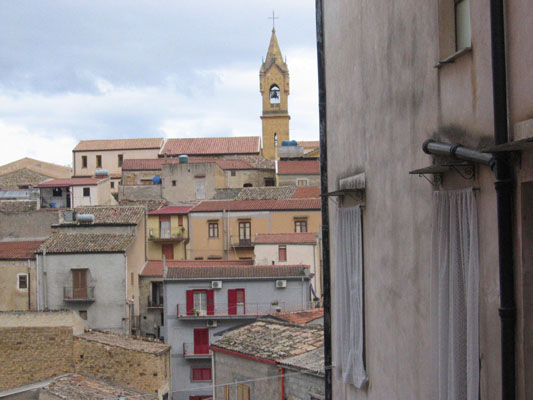 Mezzojuso, Sicily